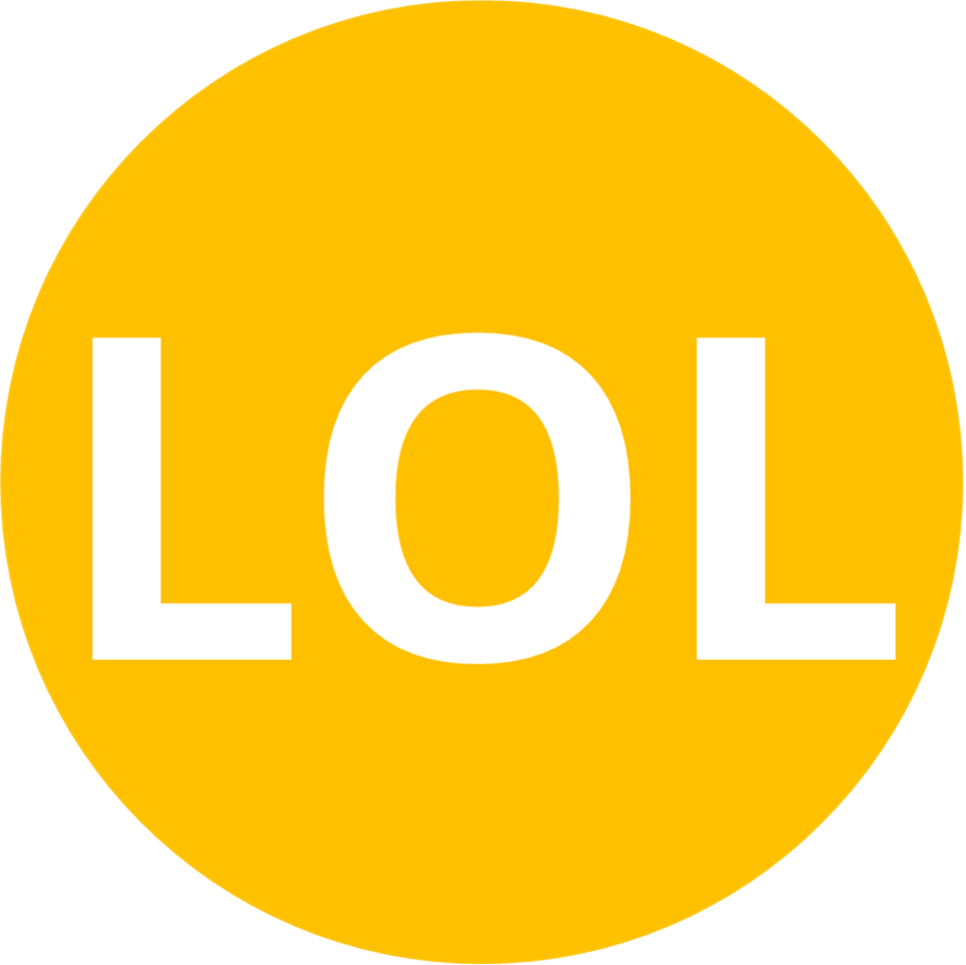 A smiley from the Lol collection